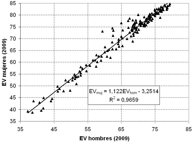 Life exp female vs. male 2009 (sample: 166 countries) Source: Life expancy (CIA factbook, 2009)